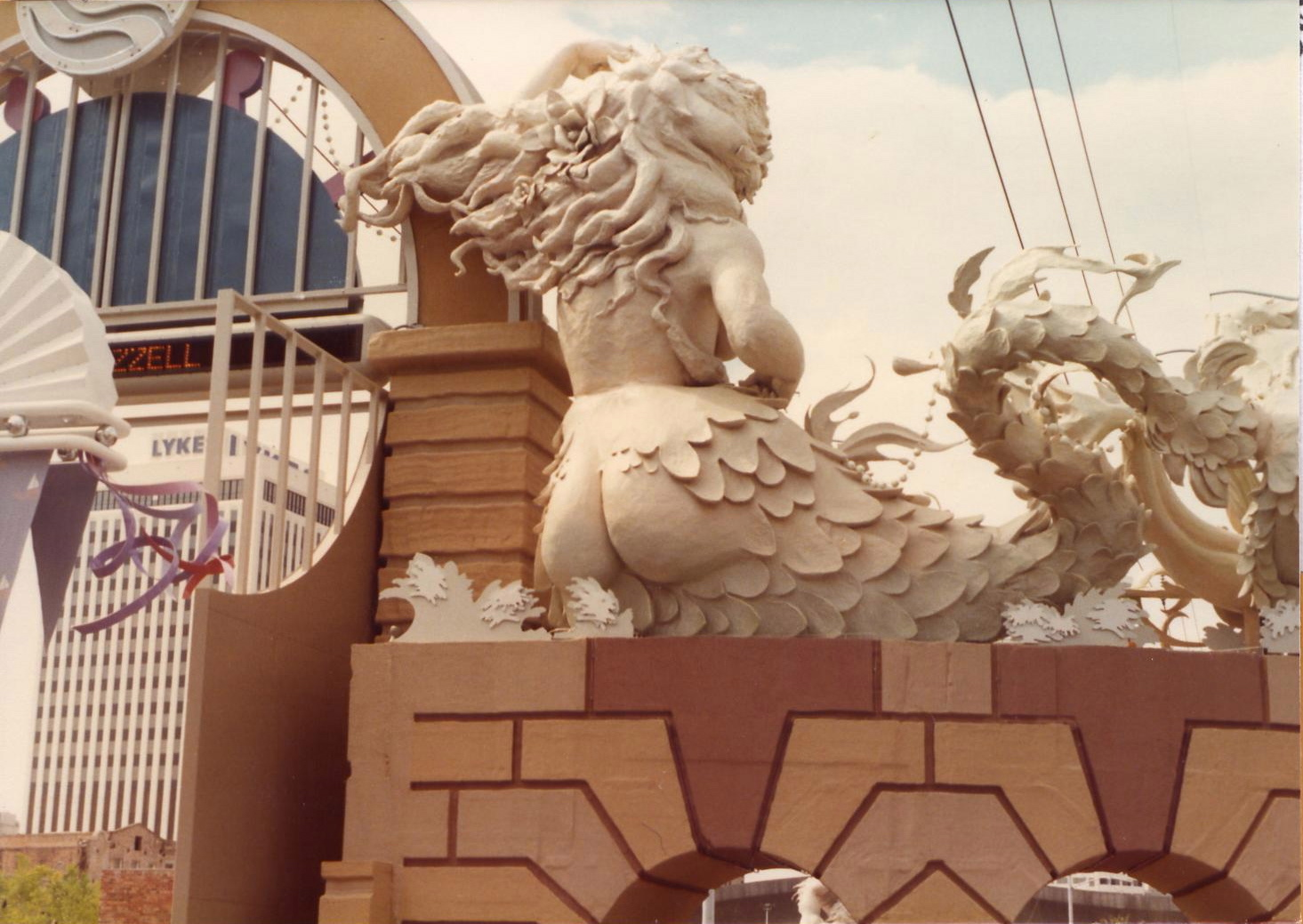 New Orleans Worlds Fair of 1984. Rear of one of the pair of mermaid scultptures on the main entrance gate. Photo by Infrogmation, 1984